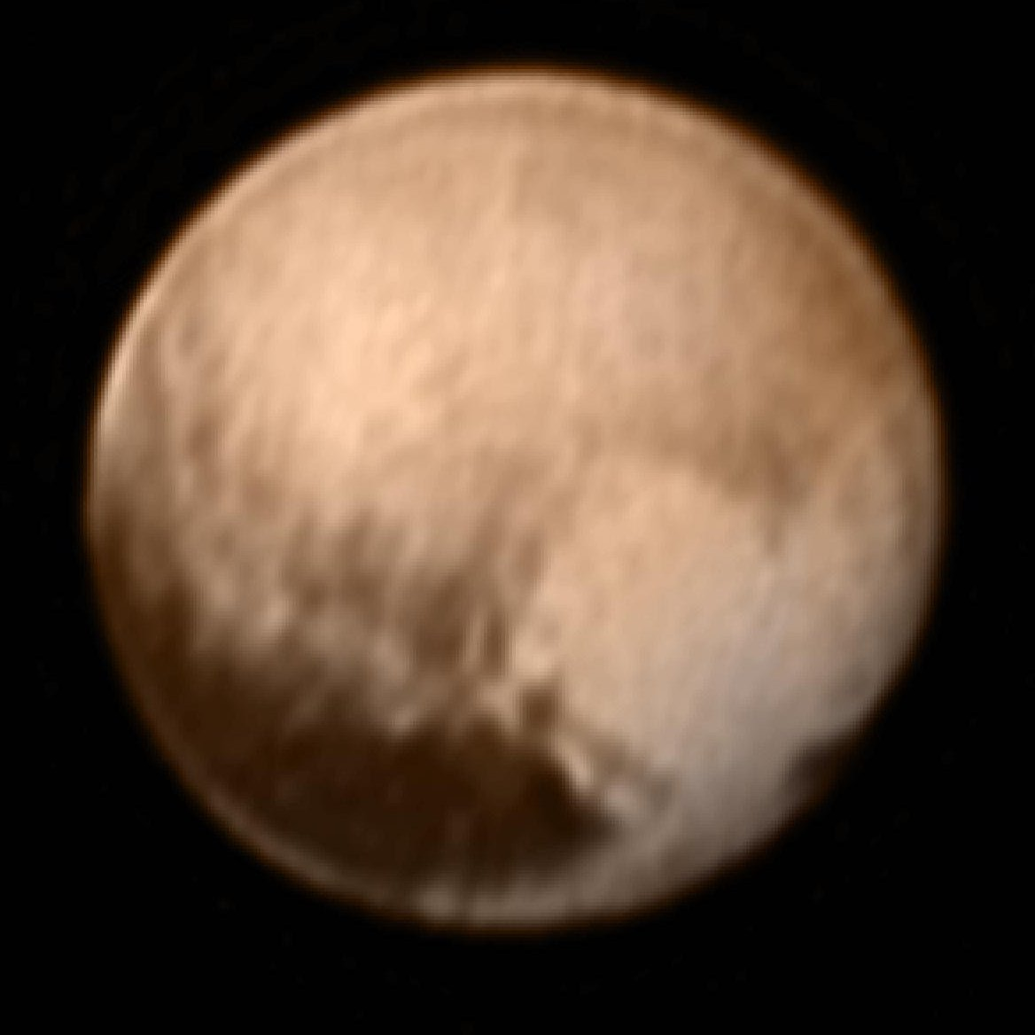 PIA19702: A Heart on Pluto In the early morning hours of July 8, 2015, mission scientists received this new view of Pluto -- the most detailed yet returned by the Long Range Reconnaissance Imager (LORRI) aboard New Horizons. The image was taken on July 7, when the NASA spacecraft was just under 5 million miles (8 million kilometers) from Pluto, and is the first to be received since the July 4 anomaly that sent the spacecraft into safe mode. This view is centered roughly on the area that will be seen close-up during New Horizons' July 14 closest approach. This side of Pluto is dominated by three broad regions of varying brightness. Most prominent are an elongated dark feature at the equator, informally known as "the whale," and a large heart-shaped bright area measuring some 1,200 miles (2,000 kilometers) across on the right. Above those features is a polar region that is intermediate in brightness. The Johns Hopkins University Applied Physics Laboratory in Laurel, Maryland, designed, built, and operates the New Horizons spacecraft, and manages the mission for NASA's Science Mission Directorate. The Southwest Research Institute, based in San Antonio, leads the science team, payload operations and encounter science planning. New Horizons is part of the New Frontiers Program managed by NASA's Marshall Space Flight Center in Huntsville, Alabama.